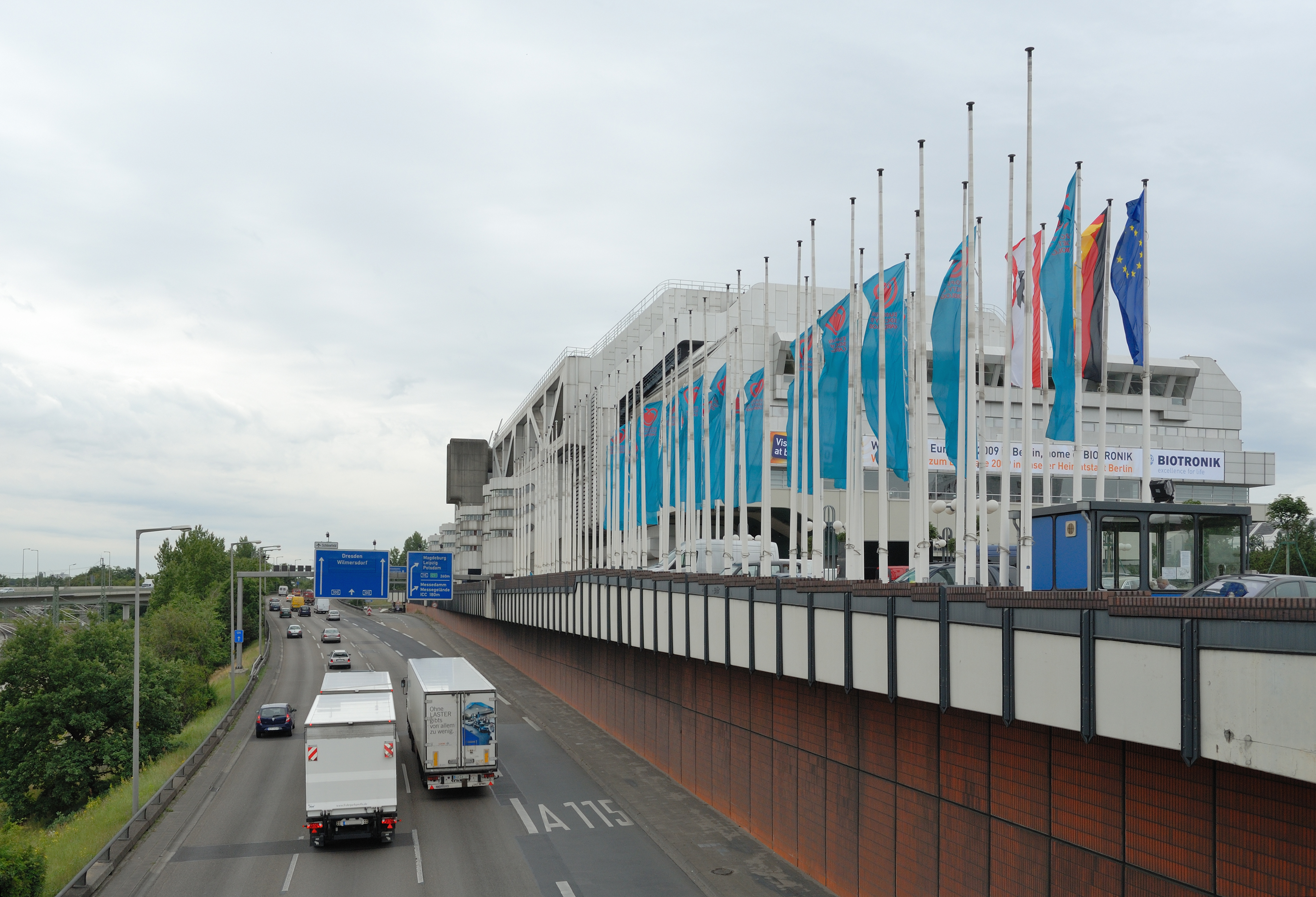 Autobahndreieck Funkturm (Funkturm interchange) with the A 100 and the beginning of A 115, looking south. This is the German highway section with the second highest traffic density, on average 181.500 vehicles passed daily in 2005 in this direction. The building at the right is the ICC.